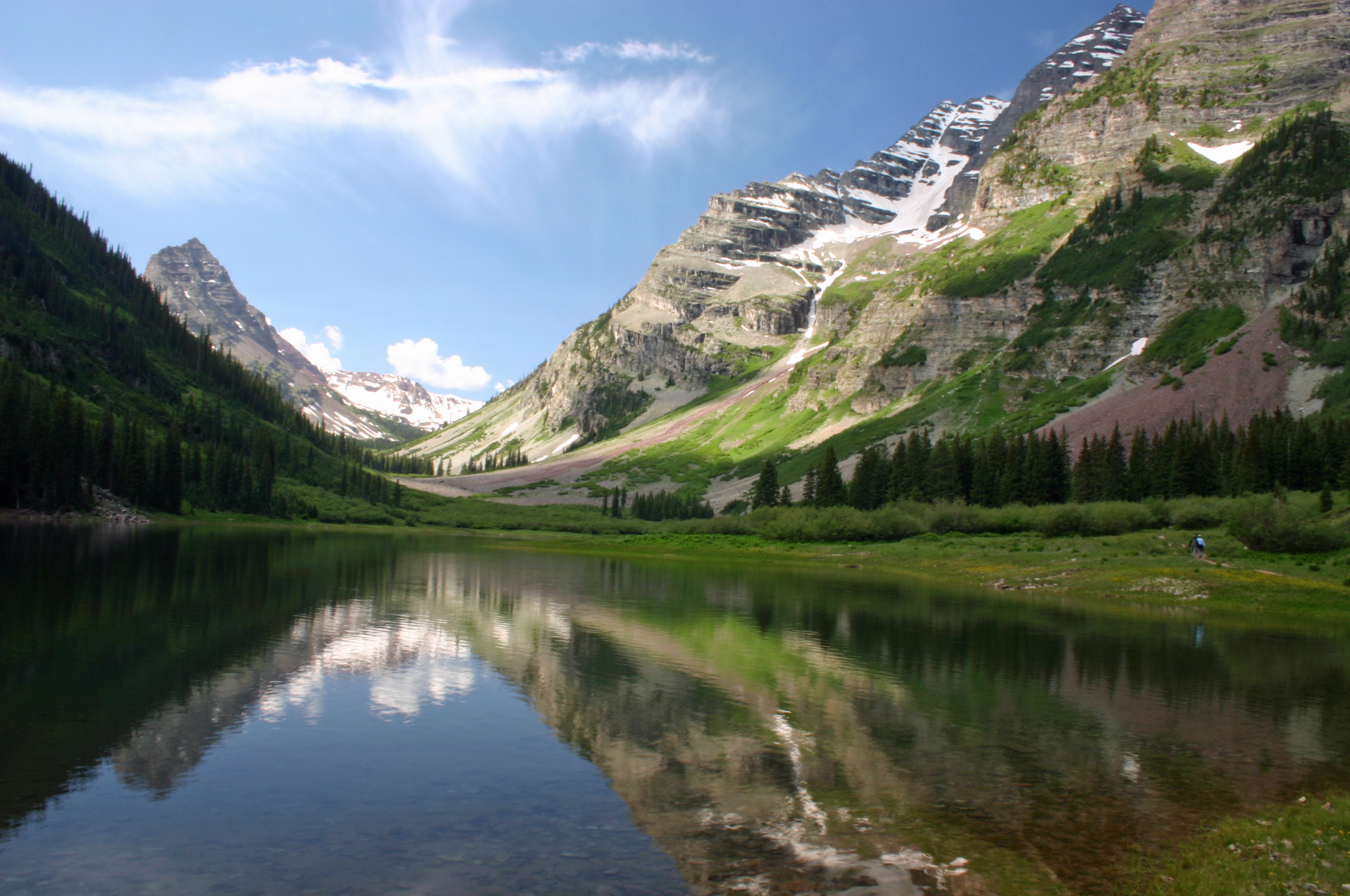 The Maroon Bells Mountain in the Elk Mountains in Colorado. Picture taken in July 2004.